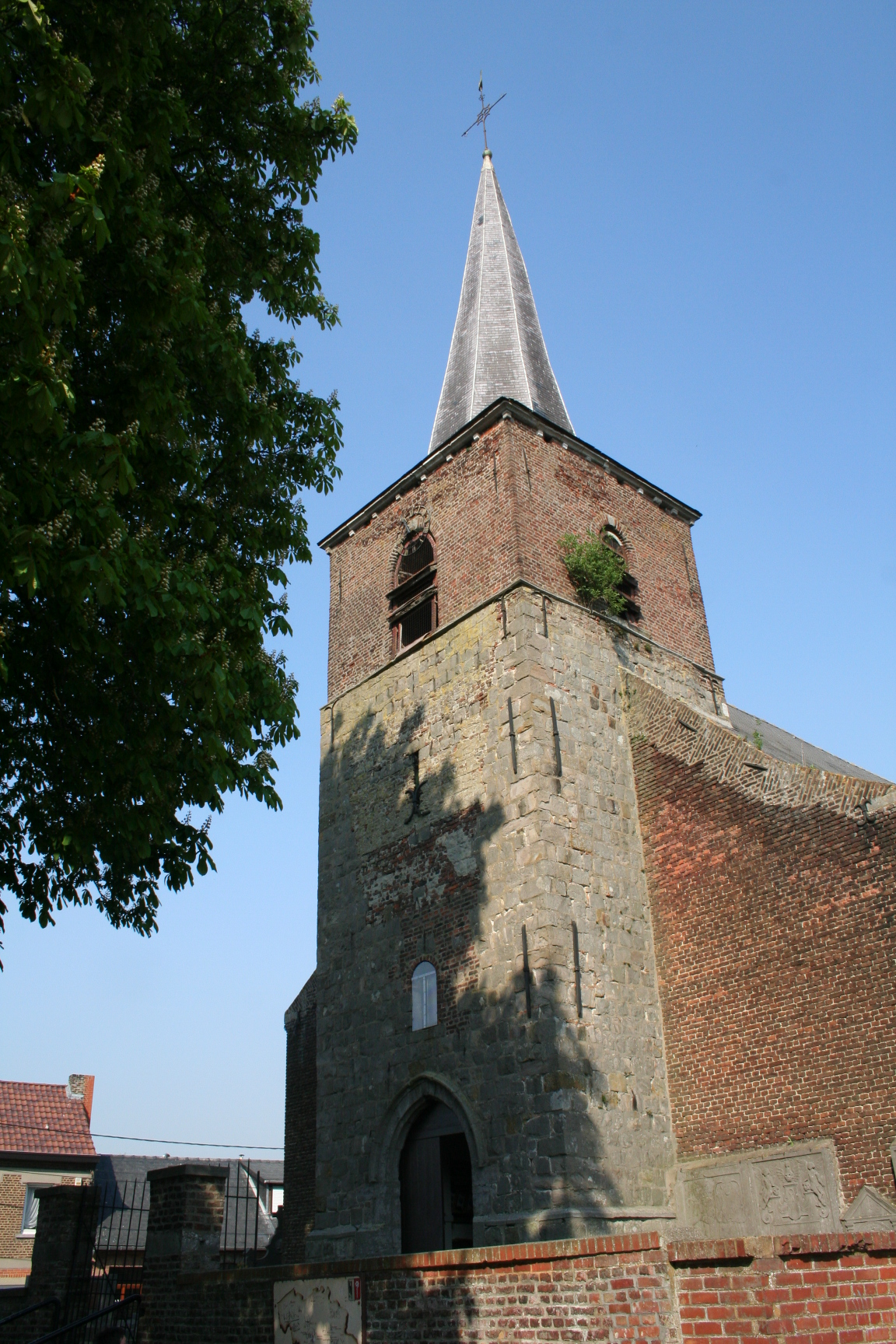 Villers-Saint-Ghislain (Belgium), the St. Ghislain church (XVII/XIXth centuries).